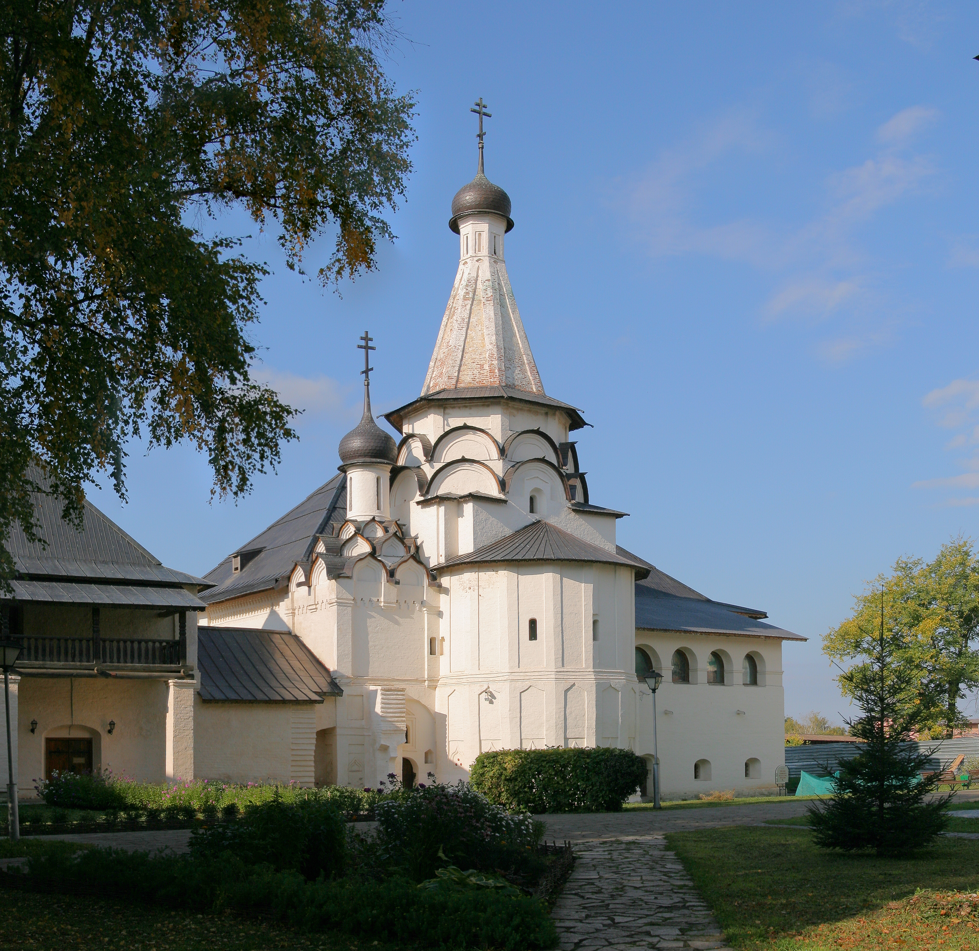 Refectory Church of the Dormition at Spaso-Yevfimiyev Monastery, Suzdal, about 1525